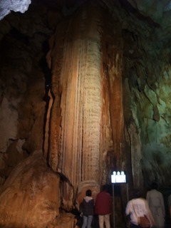 Stalactite called "Gold Column" at Akiyoshi Speleothem